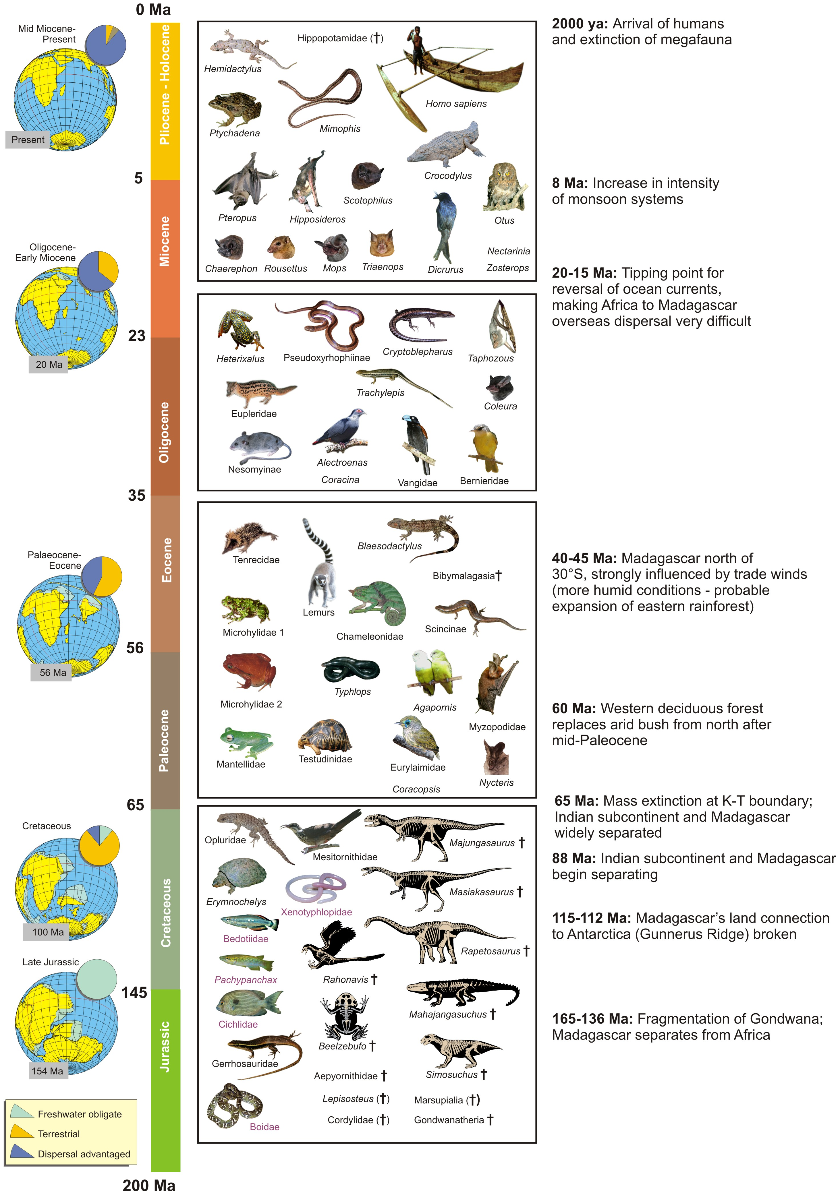 Timetable summarizing major paleogeographical and paleoclimatic events relevant to the biogeographic history of Madagascar. Table includes a non-exhaustive summary of vertebrate taxa that arrived or were present on the island during four major intervals (as in [13]; herein, taxa from the second and third period were merged for analysis). The box for the Jurassic-Cretaceous shows extinct fossil taxa that were present in Madagascar in the Late Cretaceous, plus extant taxa reconstructed to have existed during this time. Subsequent boxes show taxa that are estimated to have arrived on the island during the respective interval, with each image representing one (or rarely two) endemic Malagasy clades. Extinct taxa are marked with † (in parentheses if taxon is extinct on Madagascar but surviving elsewhere). Red font marks taxa that might be of younger origin according to some molecular estimates. Maps show changing landmass configurations and patterns of vertebrate appearance in or colonization of Madagascar by time slice and proportion of dominant colonizer types (unadjusted frequencies in percent, after [13]).